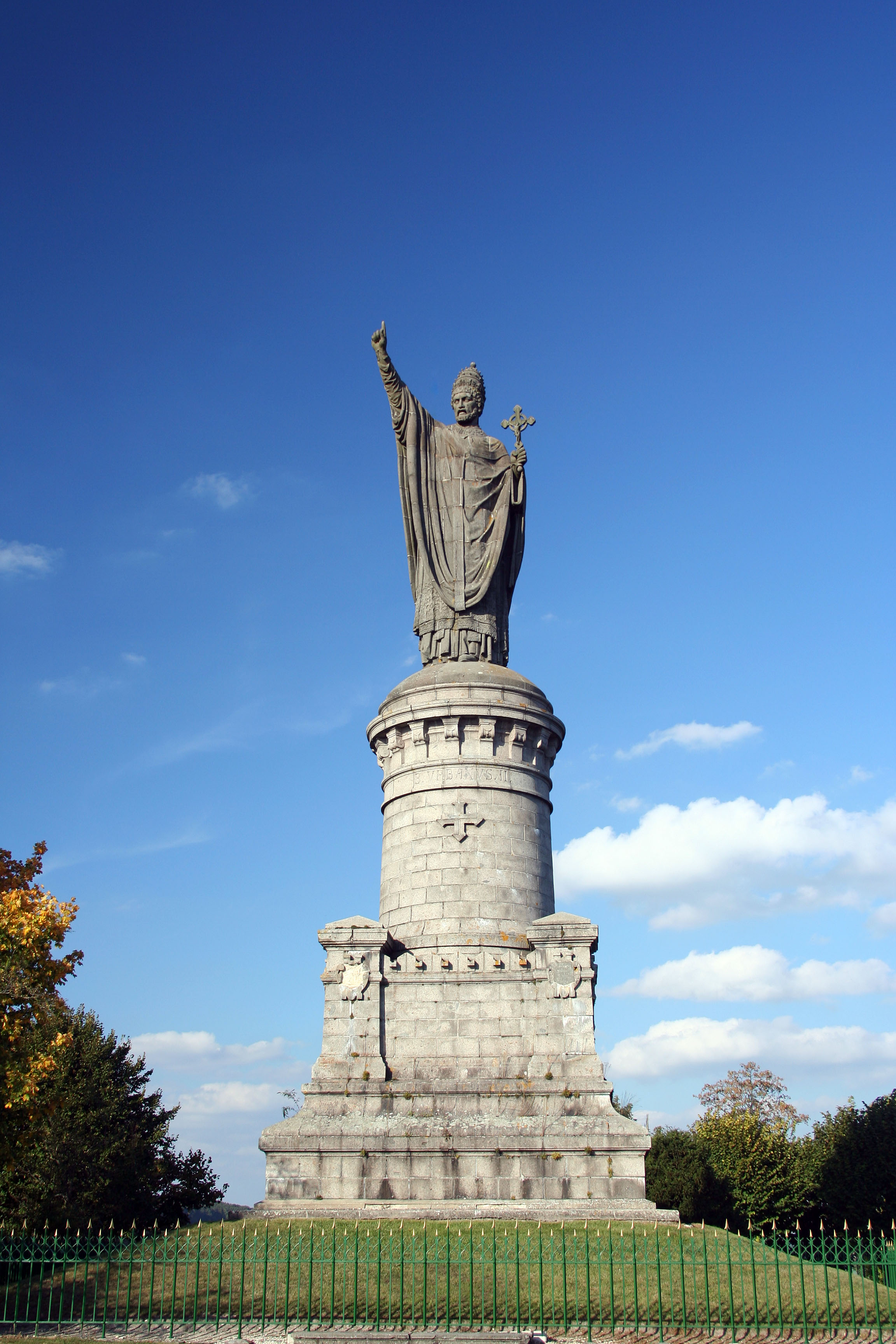 Photo of Pope Urban statue in Champagne, France.